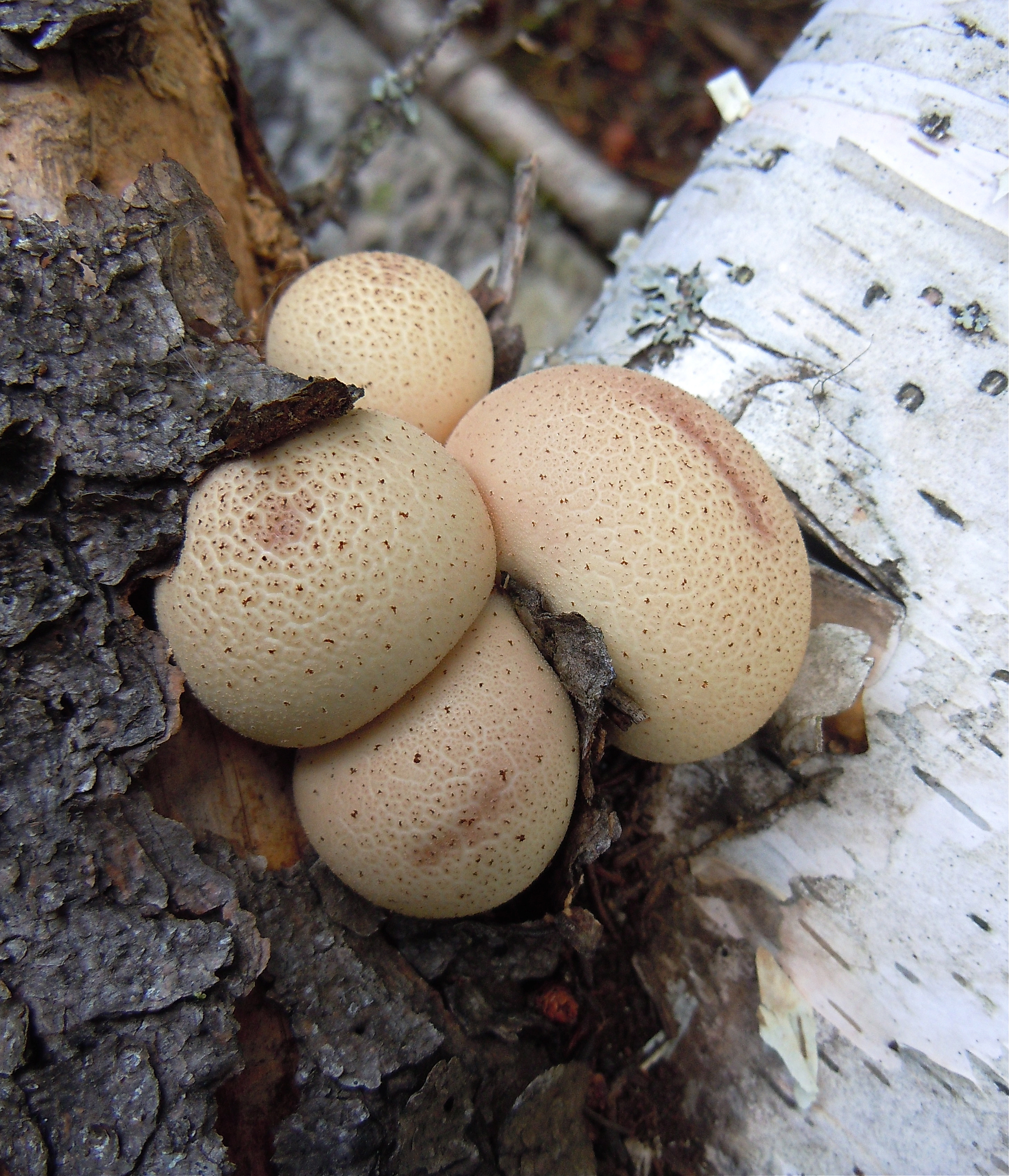 Fruit bodies of the puffball mushroom Lycoperdon pyriforme growing on a decaying pine log. Specimens photographed near La Ronge, Saskatchewan, Canada.